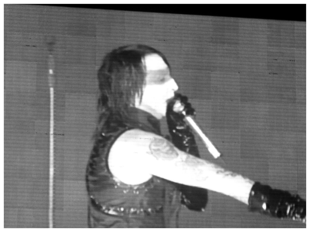 Marilyn Manson, festival Bobital (Brittany, France)